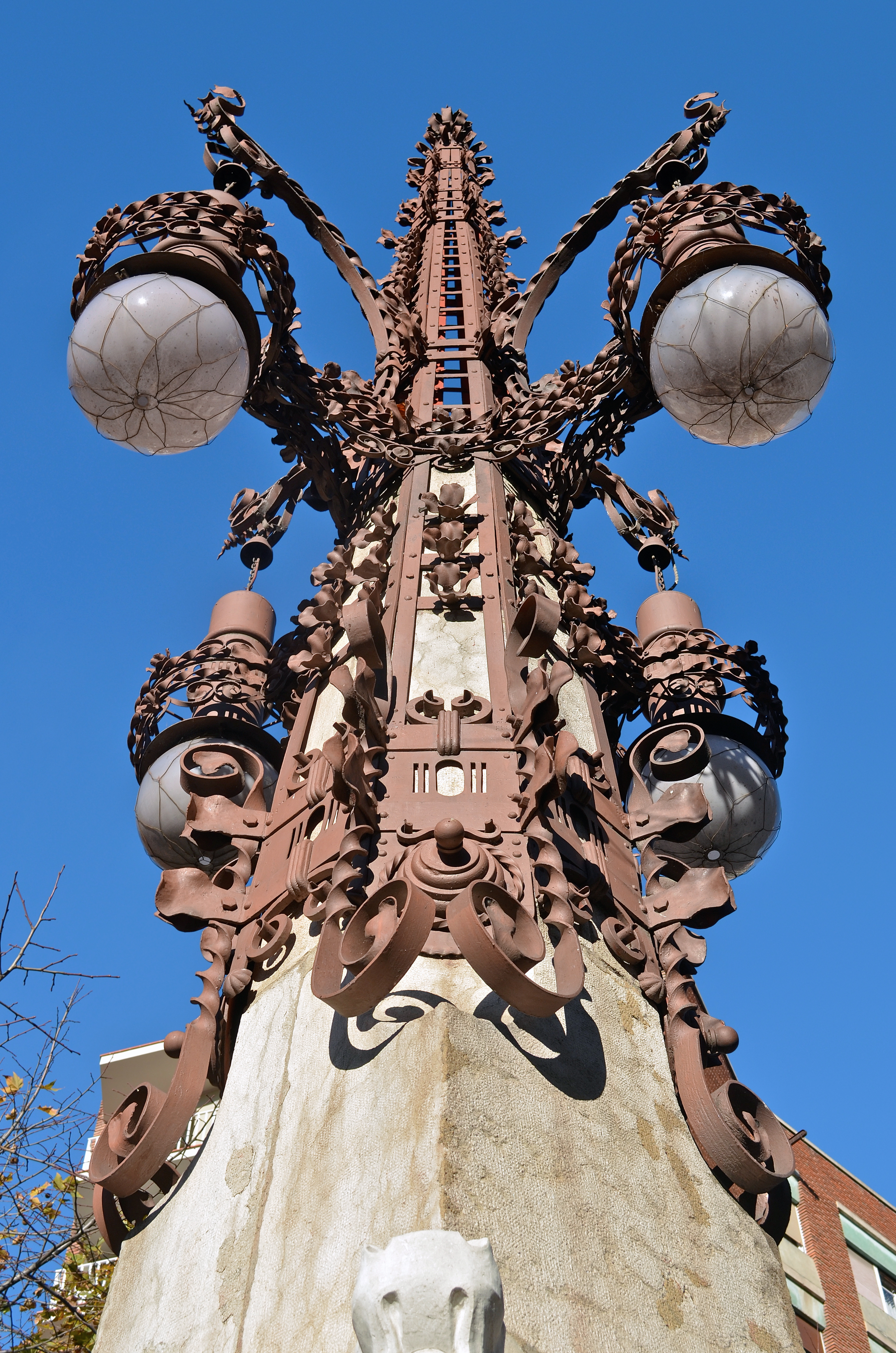 Street light (1909) designed by architect Pere Falqués i Urpí, Gaudí avenue - Barcelona